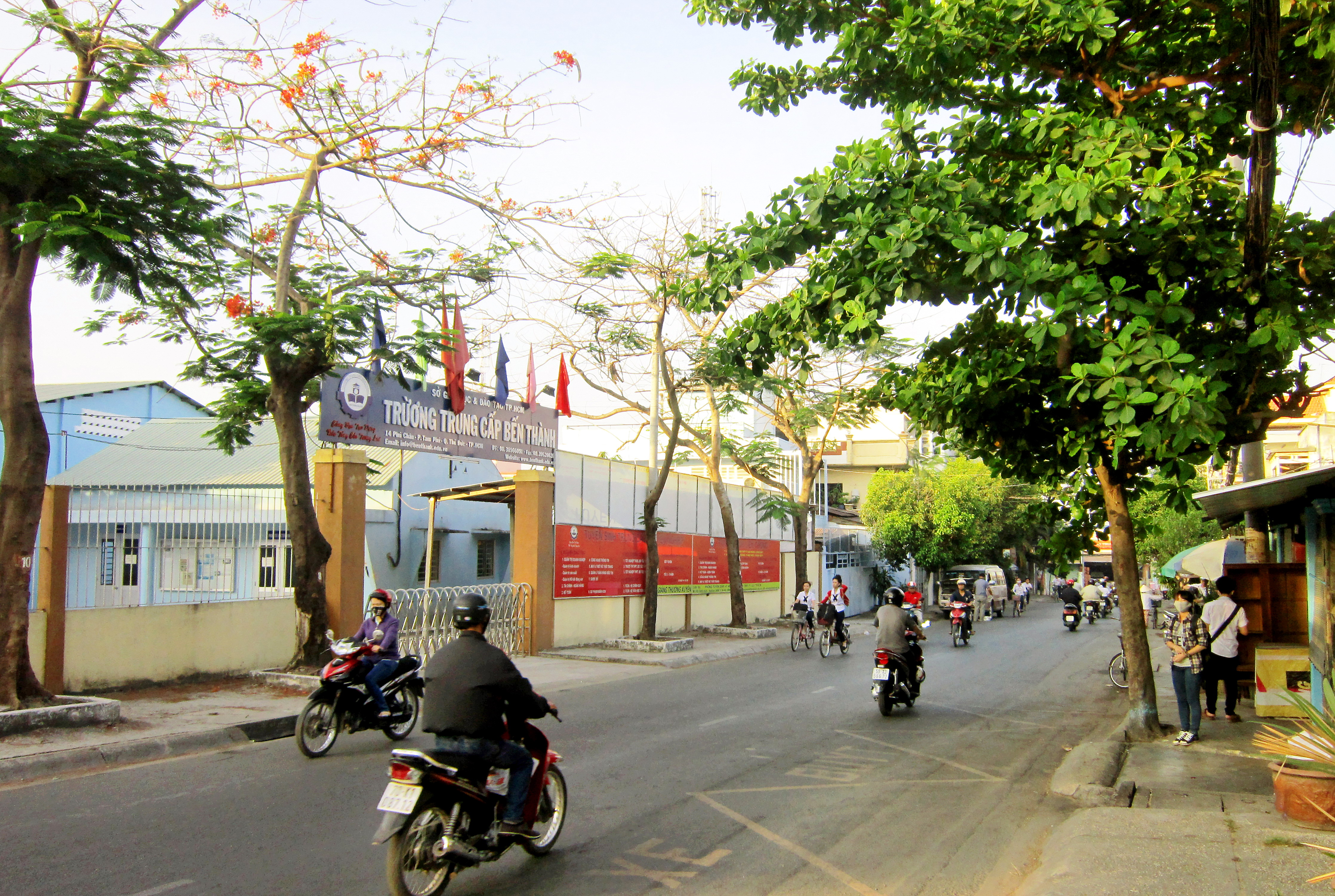 Một cảnh trên đường Phú Châu, thuộc phường Tam Phú, quận Thủ Đức, TP. Hồ Chí Minh, Việt Nam.